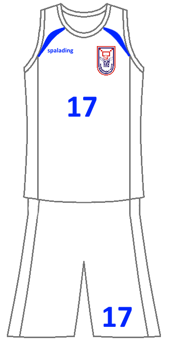 Dres K.K.Busovača